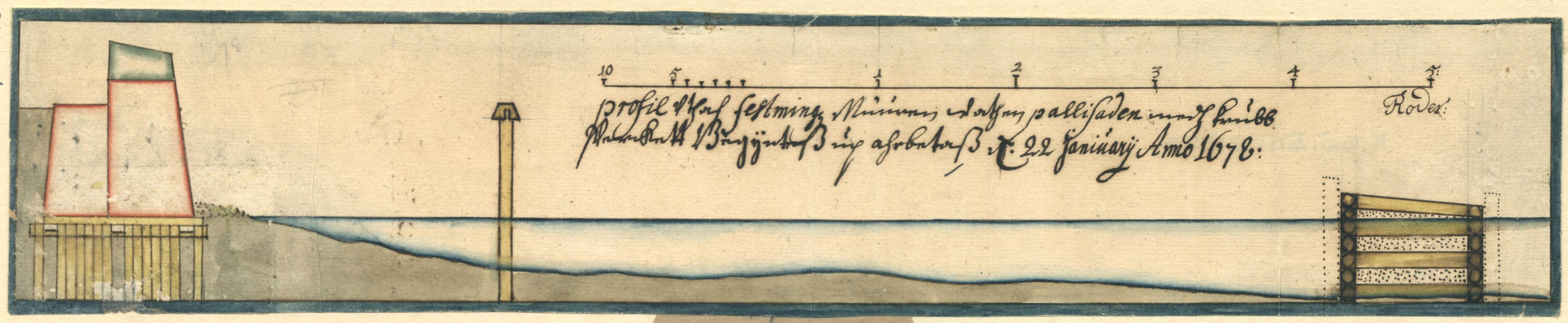 Profile of the defenceworks at the Swedish city Göteborg riverbanks with wall, palisade and stoneobstacle